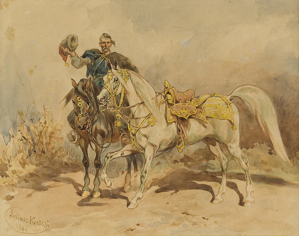 Cossack with a Horse, 1884 watercolour, paper